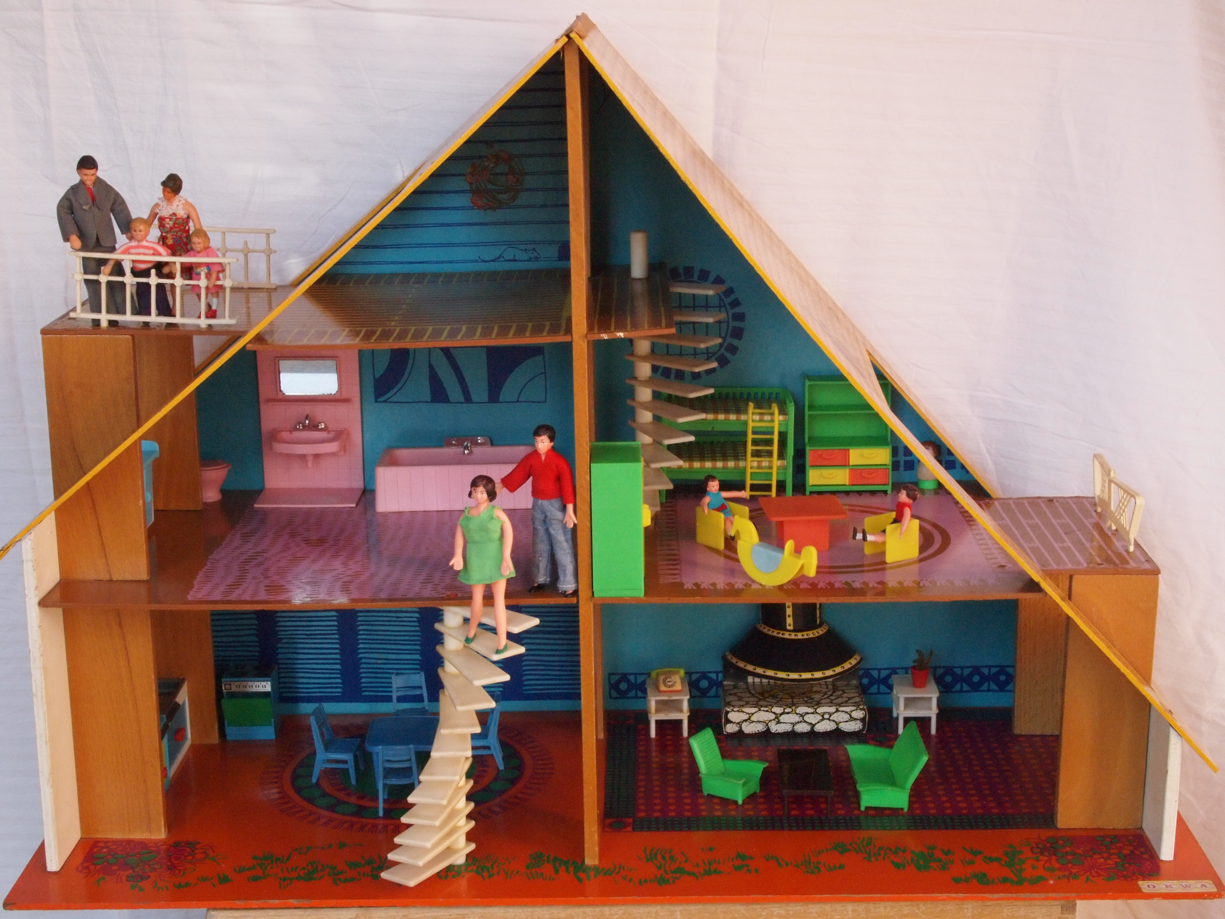 By the company G. Okkerse from Waddinxveen, Netherlands, founded 1901, since 1940 called OKWA, end of production 1976. Painted wood, Lundby-scale, Modella plastic furniture, which was the usual furniture for OKWA houses. Family above by Barton, family on the bottom by Plasty, West-Germany.